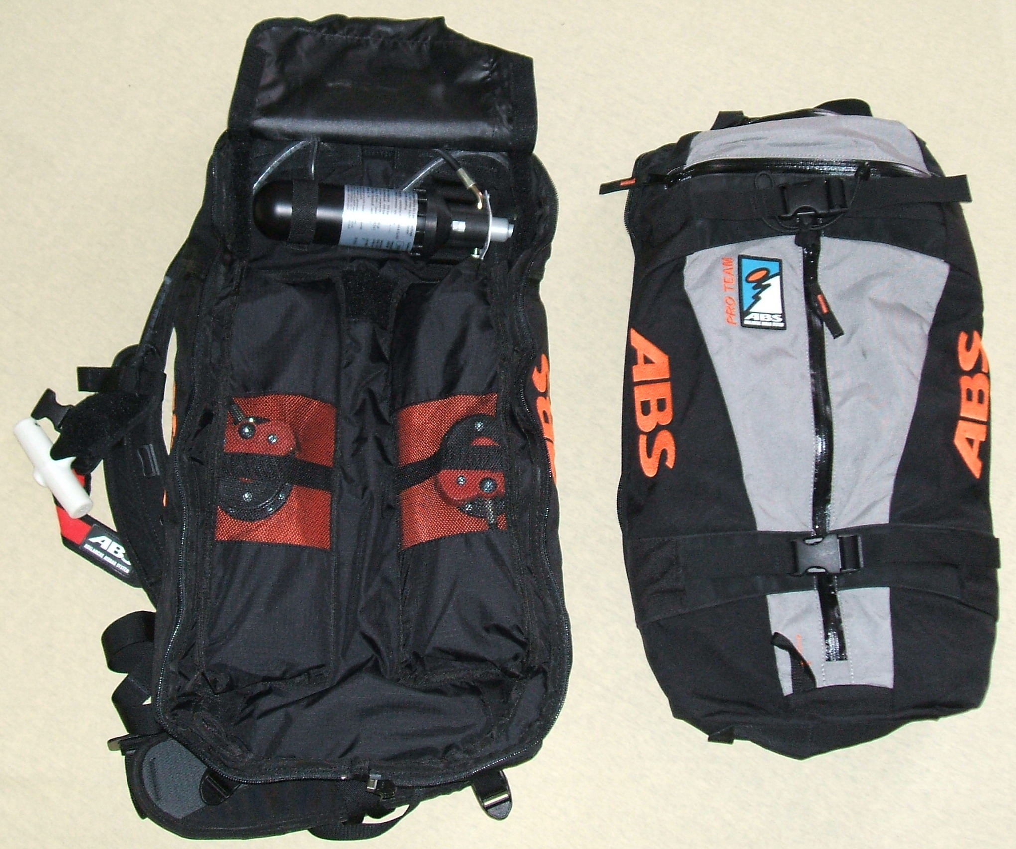 avalanche airbag system. Base unit (left) and 30 liter vario-backpack (right)